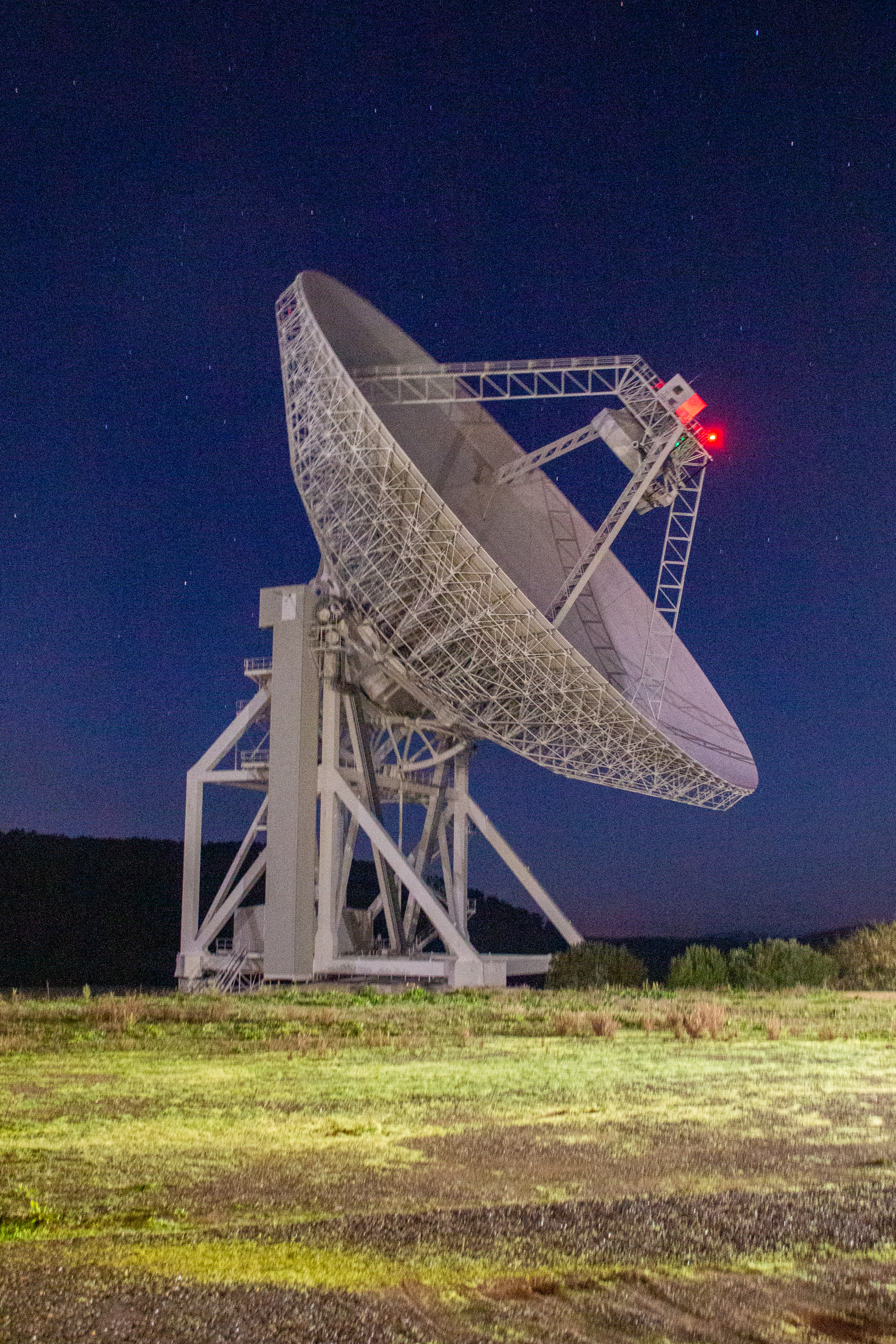 The Sardinia Radio Telescope, a 64-metre radio telescope in Sardinia, Italy.